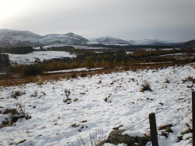 Winter Scene in Stratherrick Looking over to Cullintyre with Beinn Sgurrach in background